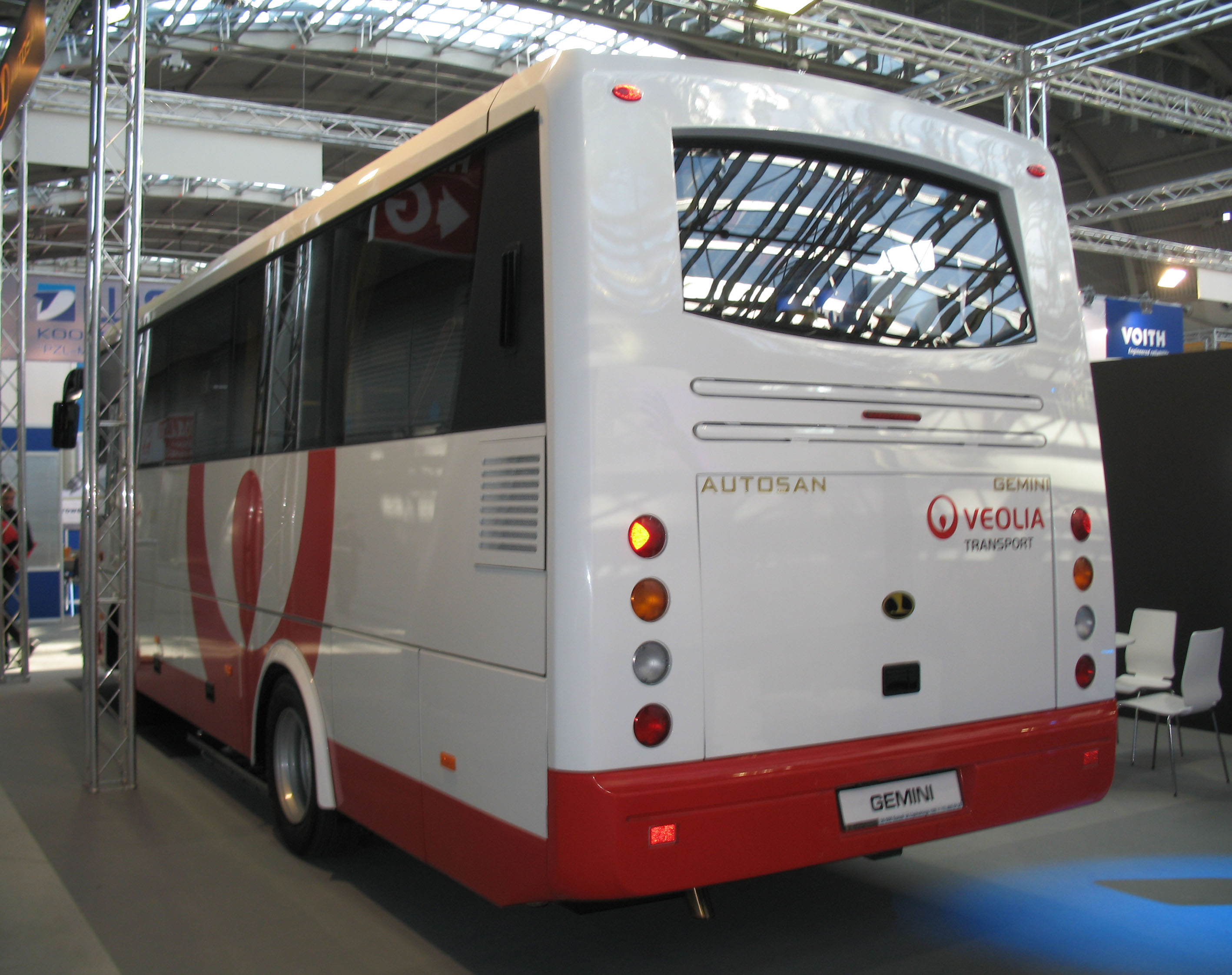 Autosan A0808T Gemini bus in Kielce, Poland. Built 2010, Veolia Transport Oddział Sanok operator. Transexpo 2010.